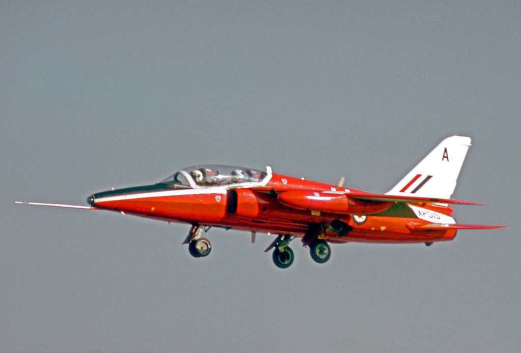 Folland Gnat T.1 XP515 of the RAF Central Flying School when operational at RAF Kemble in 1974